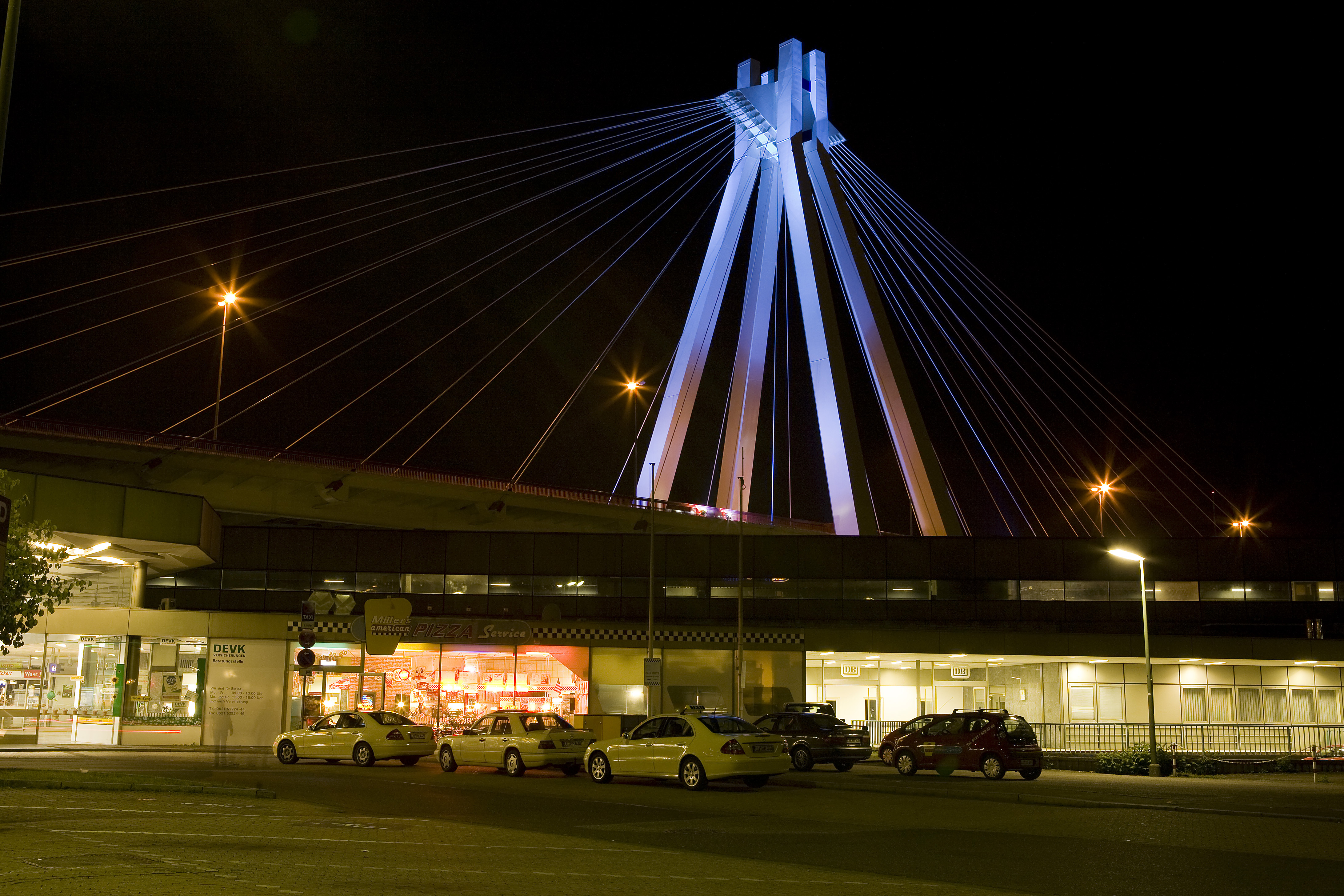 View to the Bridge at the Central Railwaystation